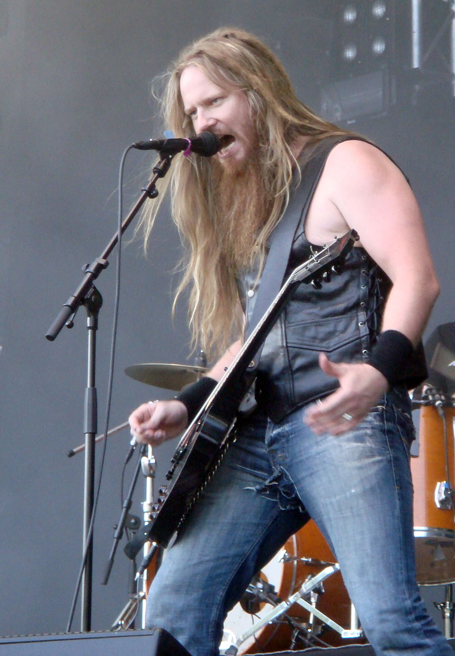 Jouni Hynynen, guitarist & vocalist of the Finnish heavy metal band Kotiteollisuus on stage at the Sauna Open Air 2007 Metal Festival